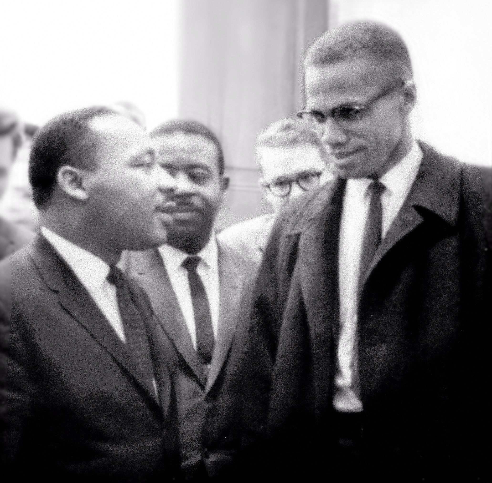 Martin Luther King and Malcolm X before press conference, March 26, 1964